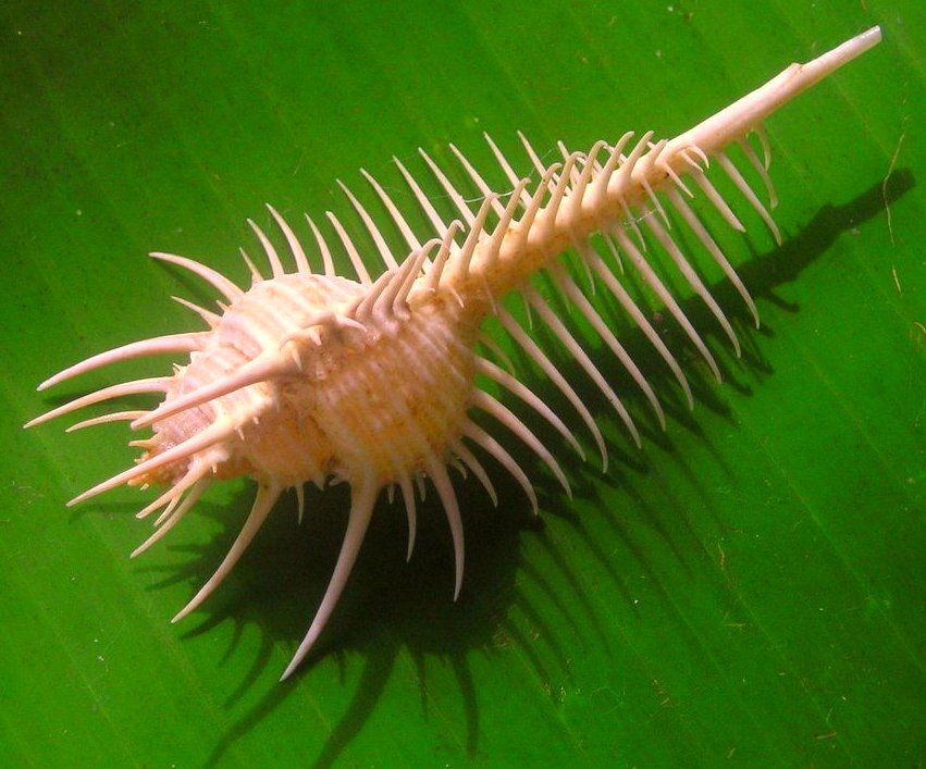 Photo of the shell of Venus Comb Murex Murex pecten.